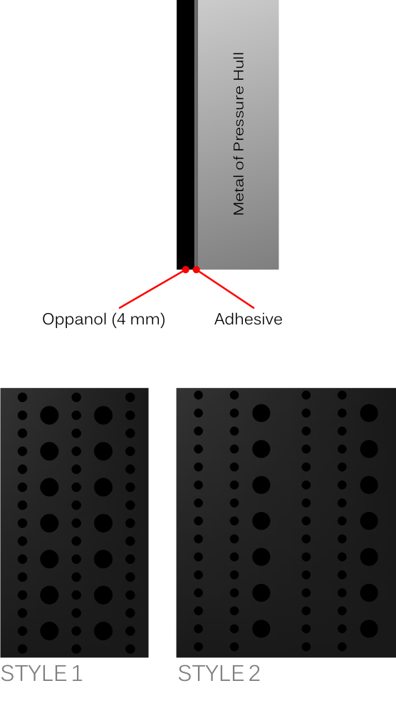 Alberich